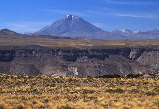 Tacora, the northernmost volcano of Chile.